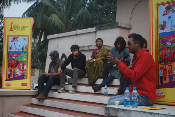 Apeejay